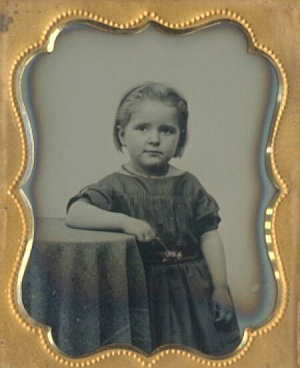 An ambrotype photograph, c. 1860